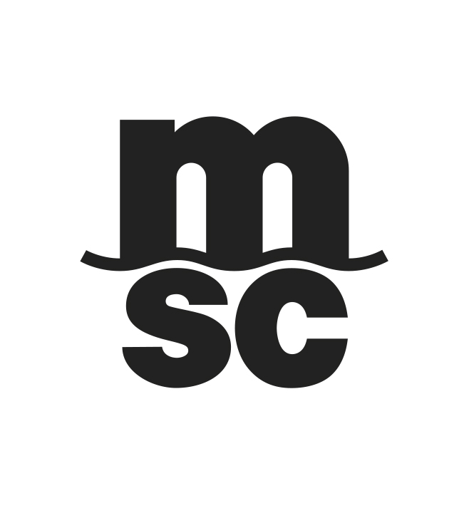 Official MSC logo mark 2017